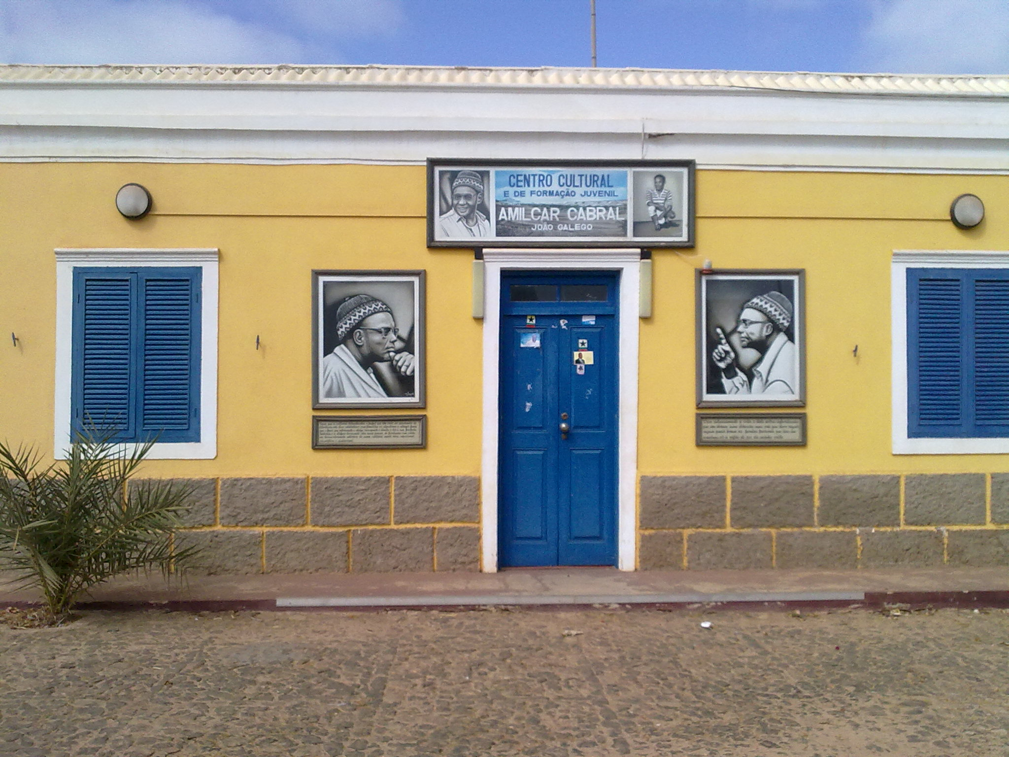 Culture center in João Galego, Cape Verde.